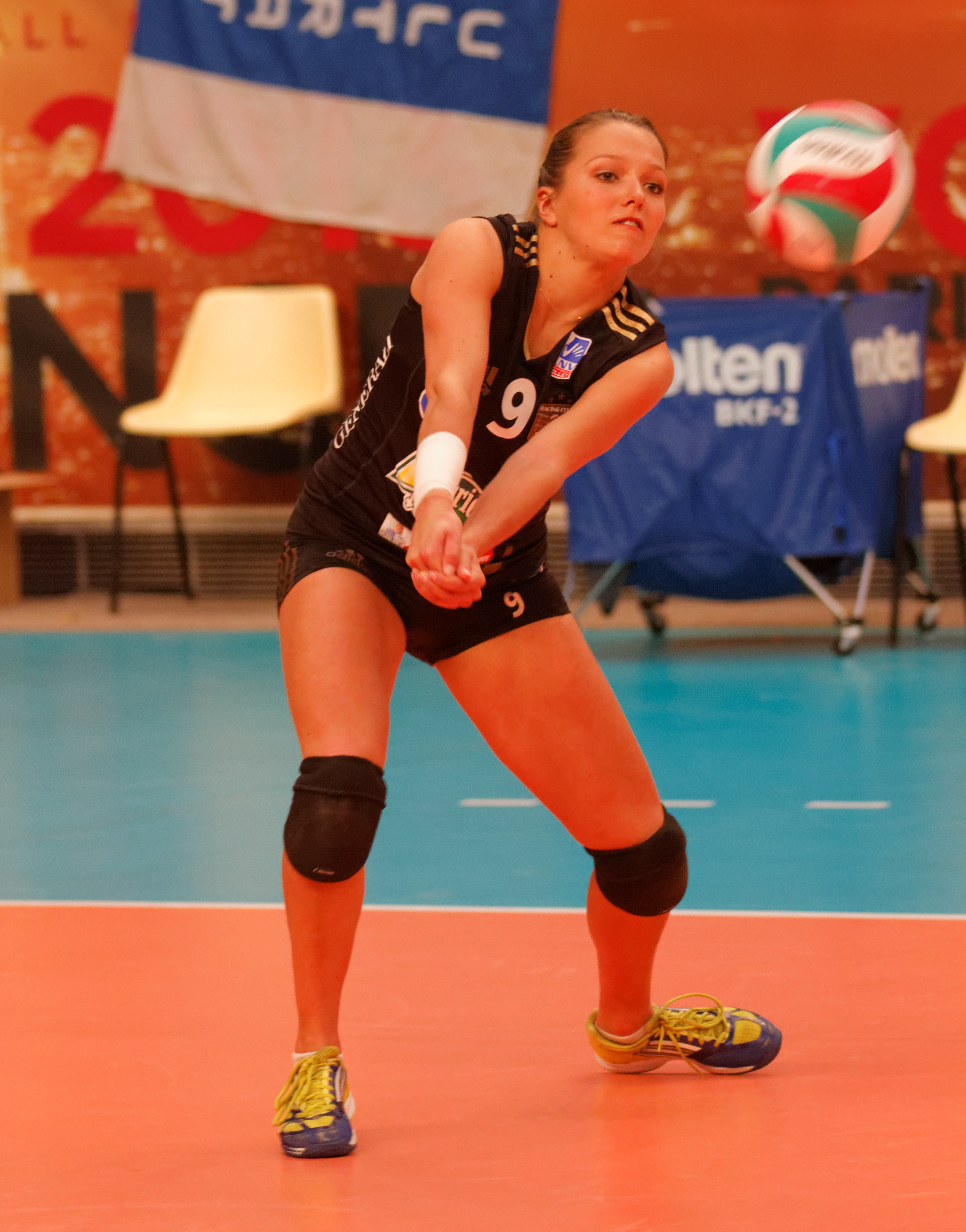 Final of the Volleyball French Cup, Racing Club de Cannes - Stella Étoile Sportive Calais, March 30, 2013.